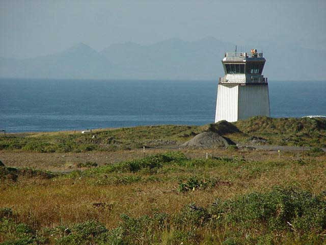 Eareckson Air Station tower with Aggatu Island in background (US Air Force photo)